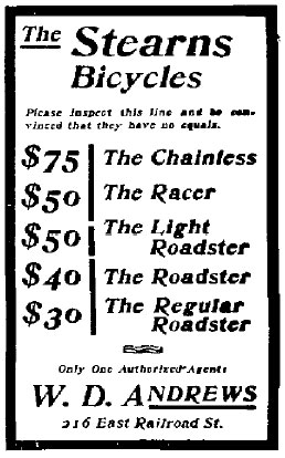 Sterns Bicycle - advertisement